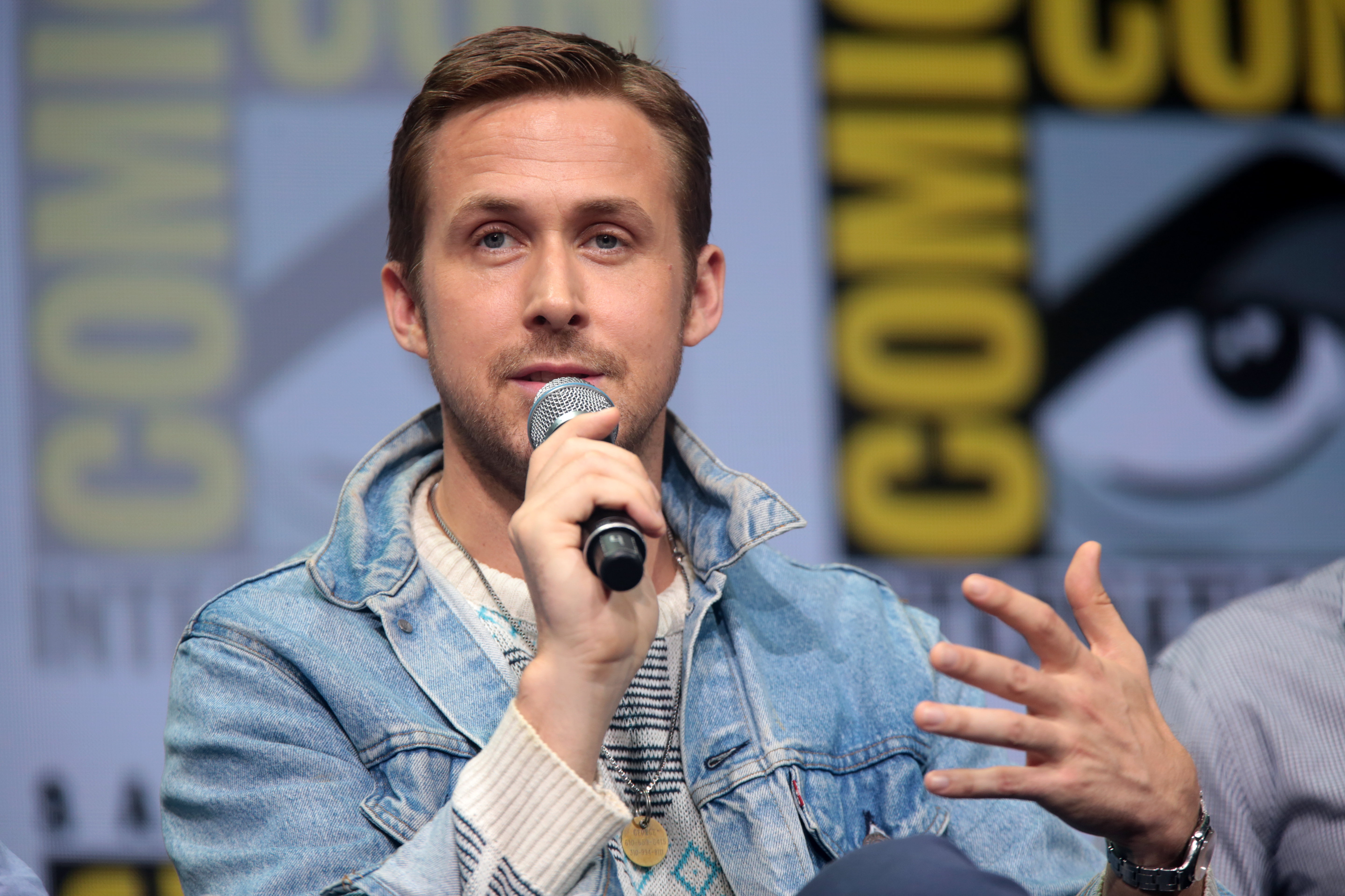 Ryan Gosling speaking at the 2017 San Diego Comic Con International, for "Blade Runner 2049", at the San Diego Convention Center in San Diego, California.